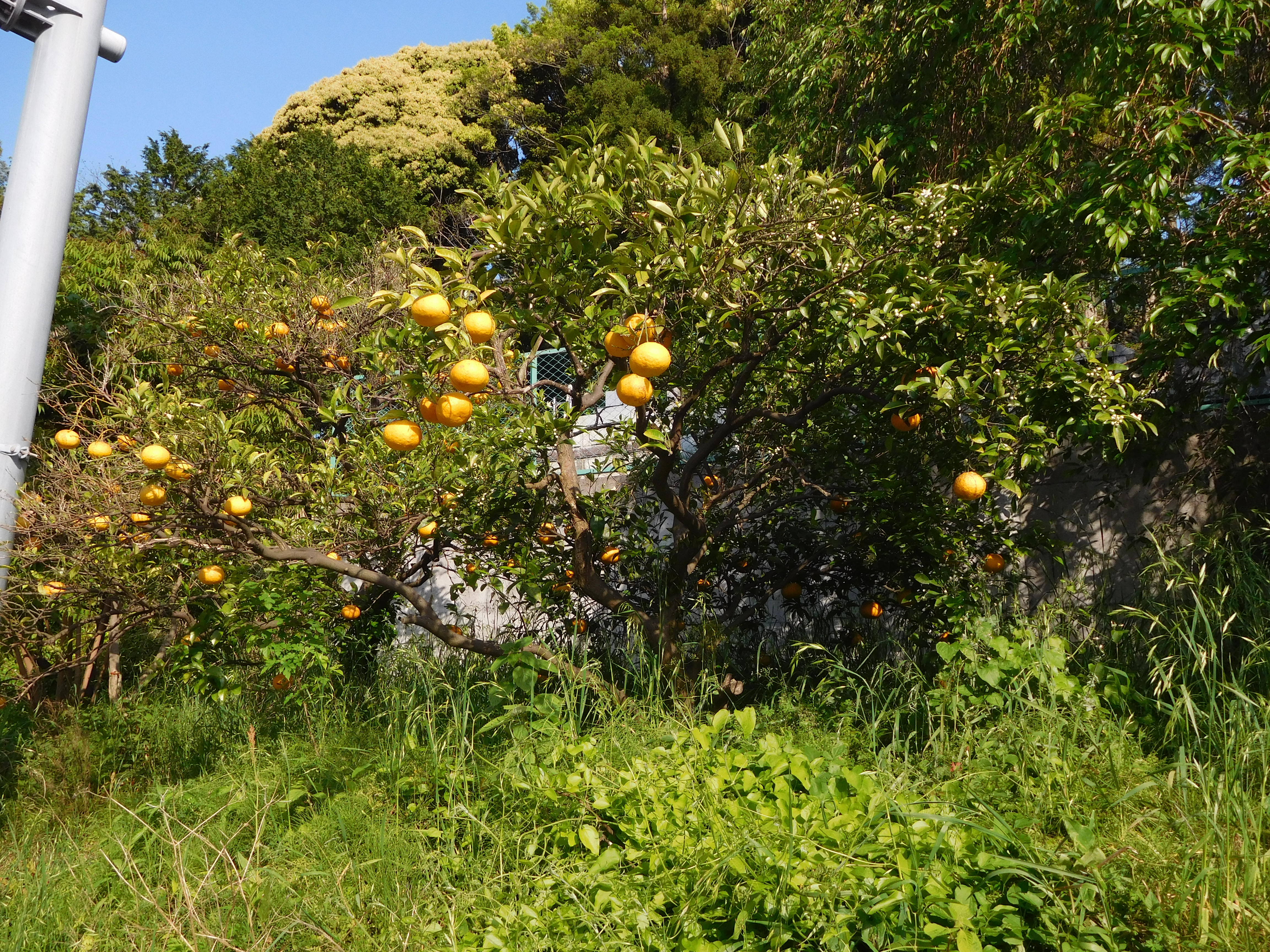 This is a Amanatsu tree in Shimizu-ku, Shizuoka city, Shizuoka pref., Japan.